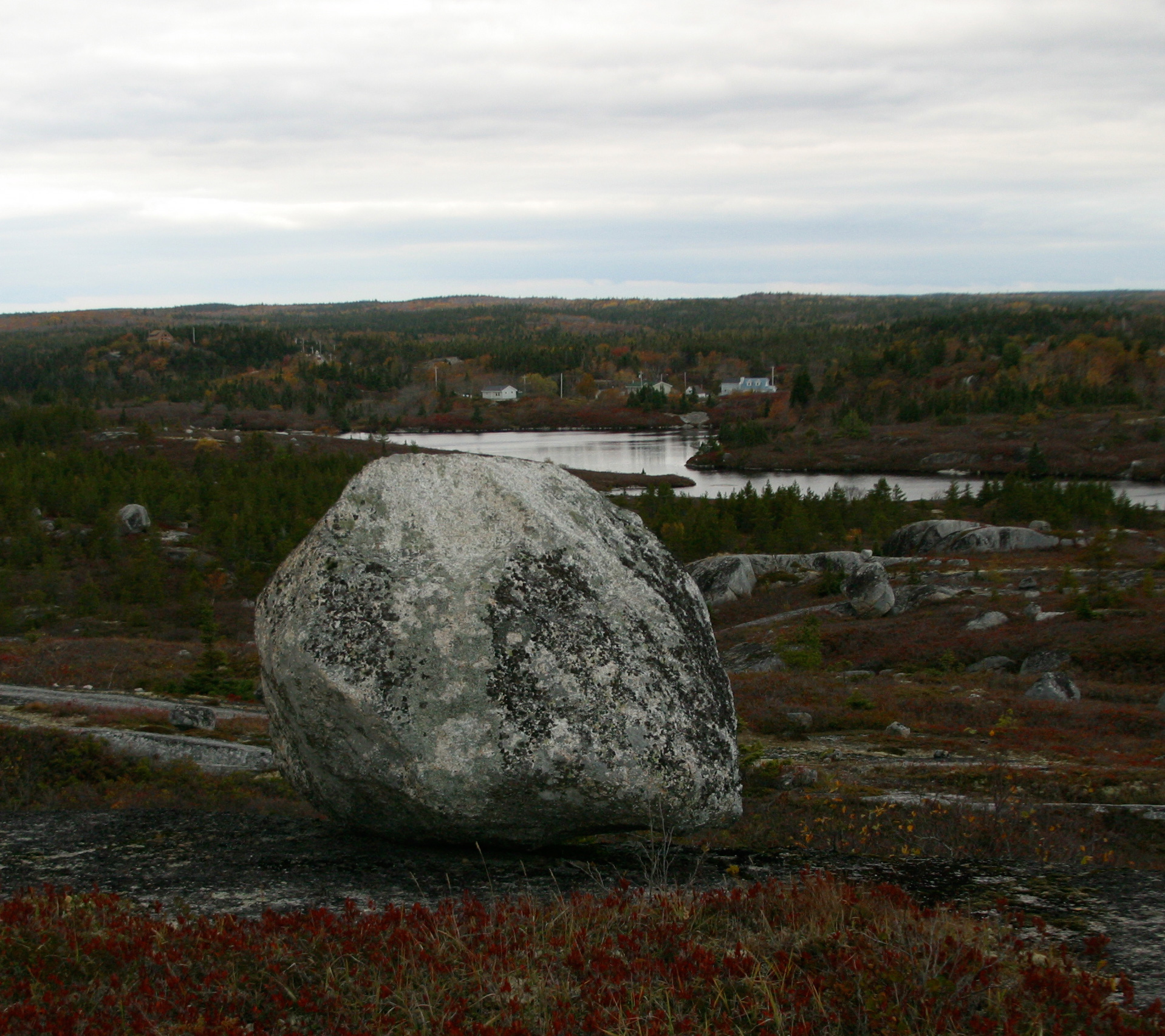 A granite boulder ("perched erratic") on a hillside in "The Barrens" near West Dover.